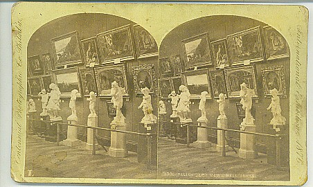 Centennial Photographic Co. (by Edward L. Wilson and W. Irving Adams), "1776-1876 International Exhibition, Philadelphia" -- "The Italian Dept. Memorial Hall Annex". Stereo card.